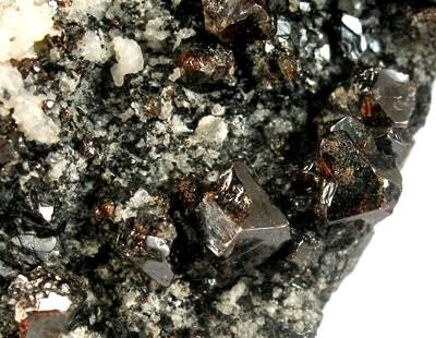 Pyrochlore Locality: Vishnovogorsk, Chelyabinsk Oblast', Southern Urals, Urals Region, Russia (Locality at ) Size: 8.8 x 5.9 x 3.2 cm. An excellent and very rich specimen covered with sharp, glassy and partially gemmy, burnished brown pyrochlore octahedrons, with flashes of gemmy red fire, aesthetically covering matrix on this very fine specimen from Vishnovogorsk, Ural Mts., Russia. Pyrochlore is an uncommon niobium oxide and crystals are usually brown and dull and earthy. Lustrous, glassy crystals such as these, with a rich lively brown color, are quite uncommon and this locality is regarded as the king for "pretty" examples of the species. Most came out in the 1980s or before, I was once told, and were released from old stashes.